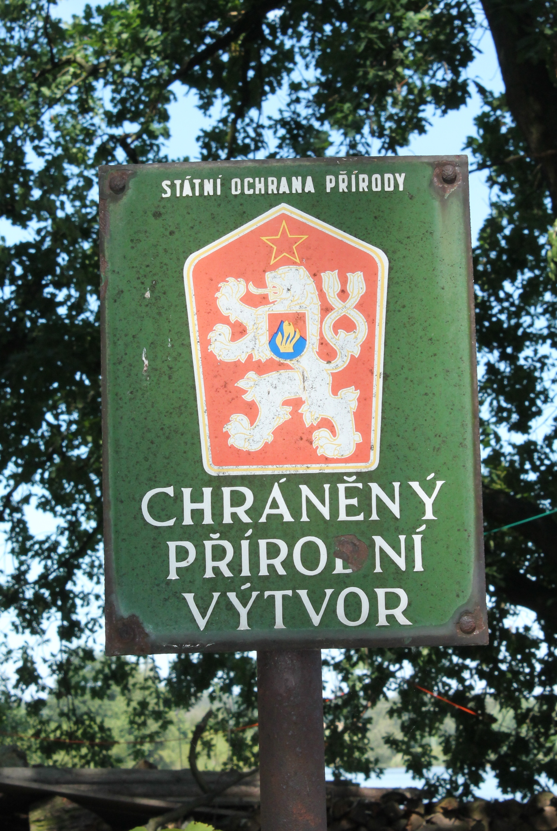 A table near to the cabin, Havlovice, Miřetice, Chrudim District, Czech Republic